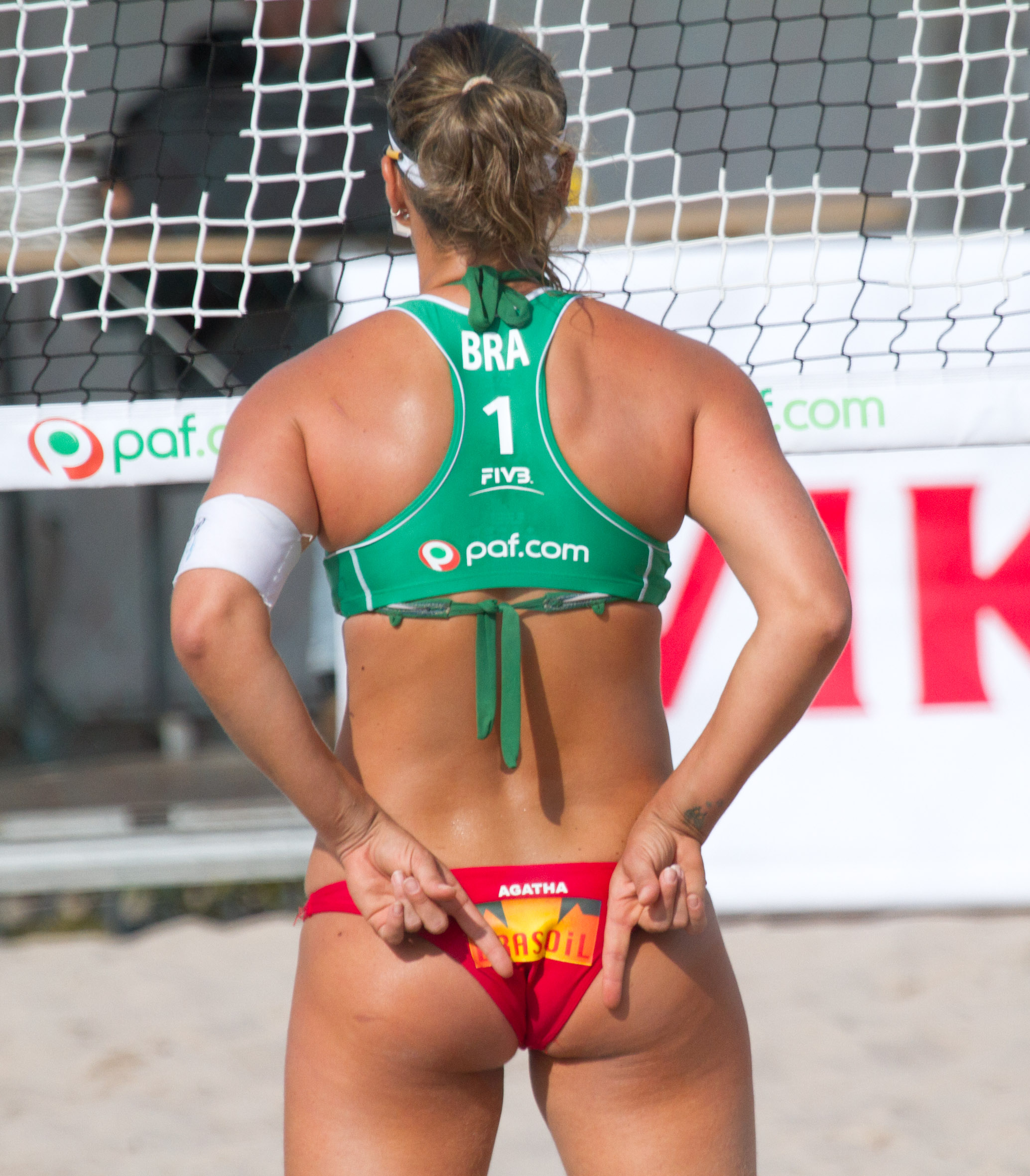 Agatha and Seixas of Brazil play Vozakova and Vasina of Russia on August 30 2012 at the Paf Open in Mariehamn, Åland, Finland. Photograph: Rob Watkins/ This picture is free to use as long as it it credited: Rob Watkins/